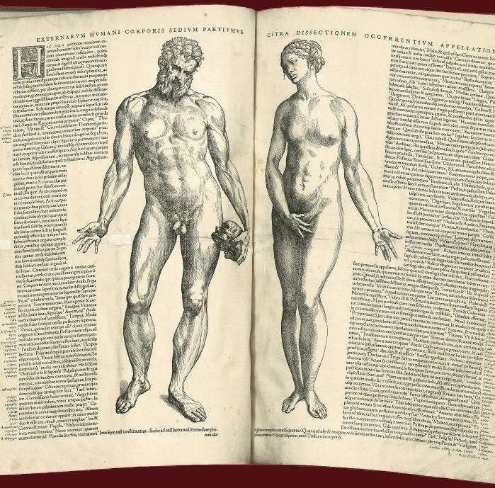 Image of two facing pages of text, also including woodcuts of naked male and female figures. "Epitome", fol. 10b and 11a.